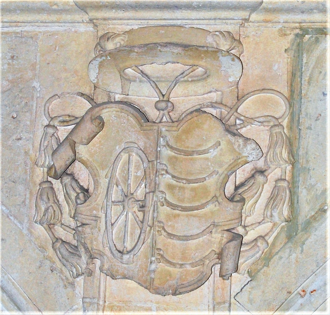 Shield of Bishop Pedro Alvarez de Acosta. Sculpted in 1550.